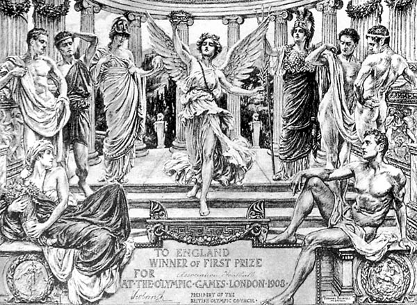 Certificate given to winners of the 1908 Olympic soccer tournament.